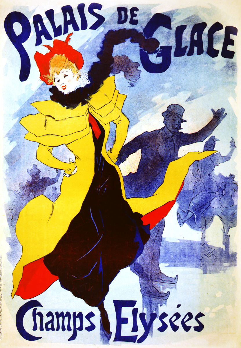 Palais de glace, Champs Elysées. Advertising poster by Jules Chéret showing fashionable woman ice skating. Printed by Chaix (ateliers Chéret), Paris, 1893.